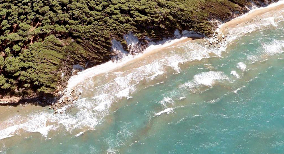 Beach of Sospetto in San Menaio, Italy